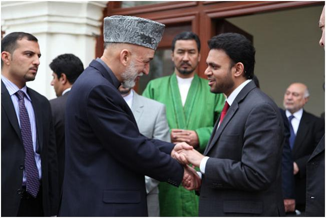 Special Envoy Hussain with Afghanistan President Karzai.